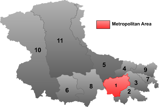 Map of Nagqu prefecture in Tibet Autonomous Region.